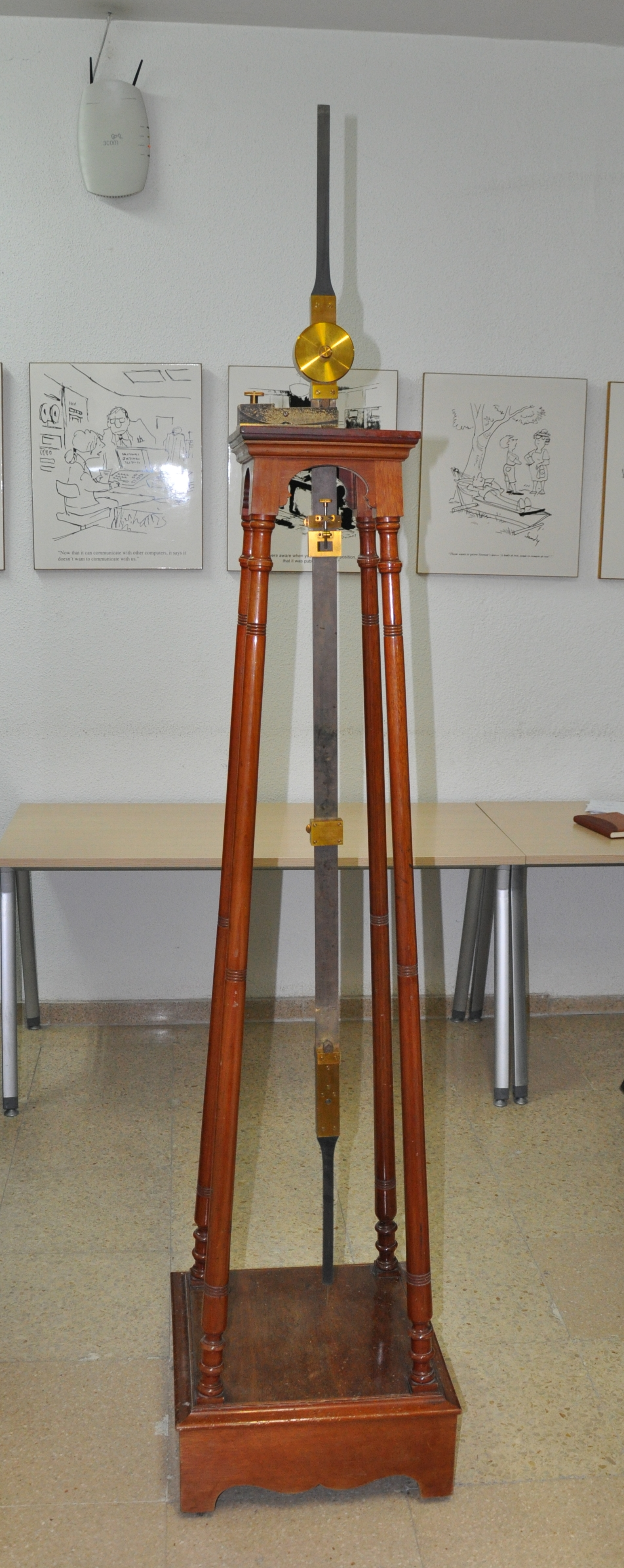 A Kater's pendulum mounted in a stand, in the School of Civil Engineering, Channels and Ports (UPM). Kater's pendulum, invented by British captain Henry Kater in 1814, was a reversible freeswinging pendulum used as a gravimeter to measure the local gravitational acceleration during geophysical surveys in the 19th century. It is a bar with moveable weights and two knife edge pivots near either end. In use, the pendulum is suspended on a stand from one pivot resting on agate plates, as shown here, and swung, and its period timed, then turned upside down and suspended from the other pivot and its period timed. The weights are adjusted until the period is the same when swung from each pivot. Then the gravitational acceleration g can be calculated from the formula T = (g/L)1/2, where T is the period and L is the measured distance between the two pivots.